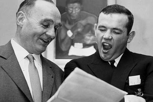 Ingemar Johansson with his manager Edvin Ahlqvist, legendary boxning promotor who also published the papers Rekord-Magasinet and All Sport.